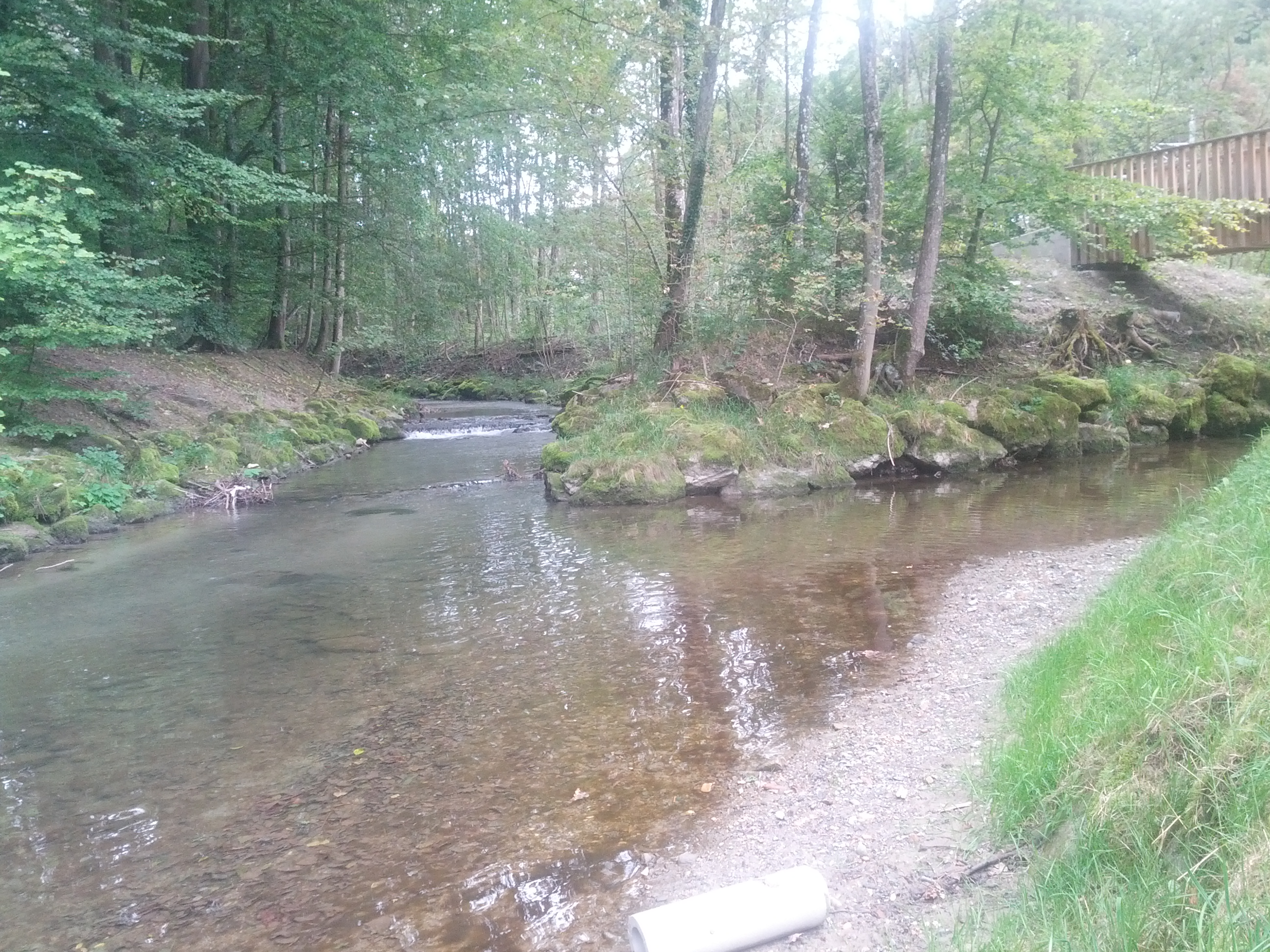 Confluence of the Mèbre (on the right) and the Sorge (on the left), which are recreating the Chamberonne (on the foreground).